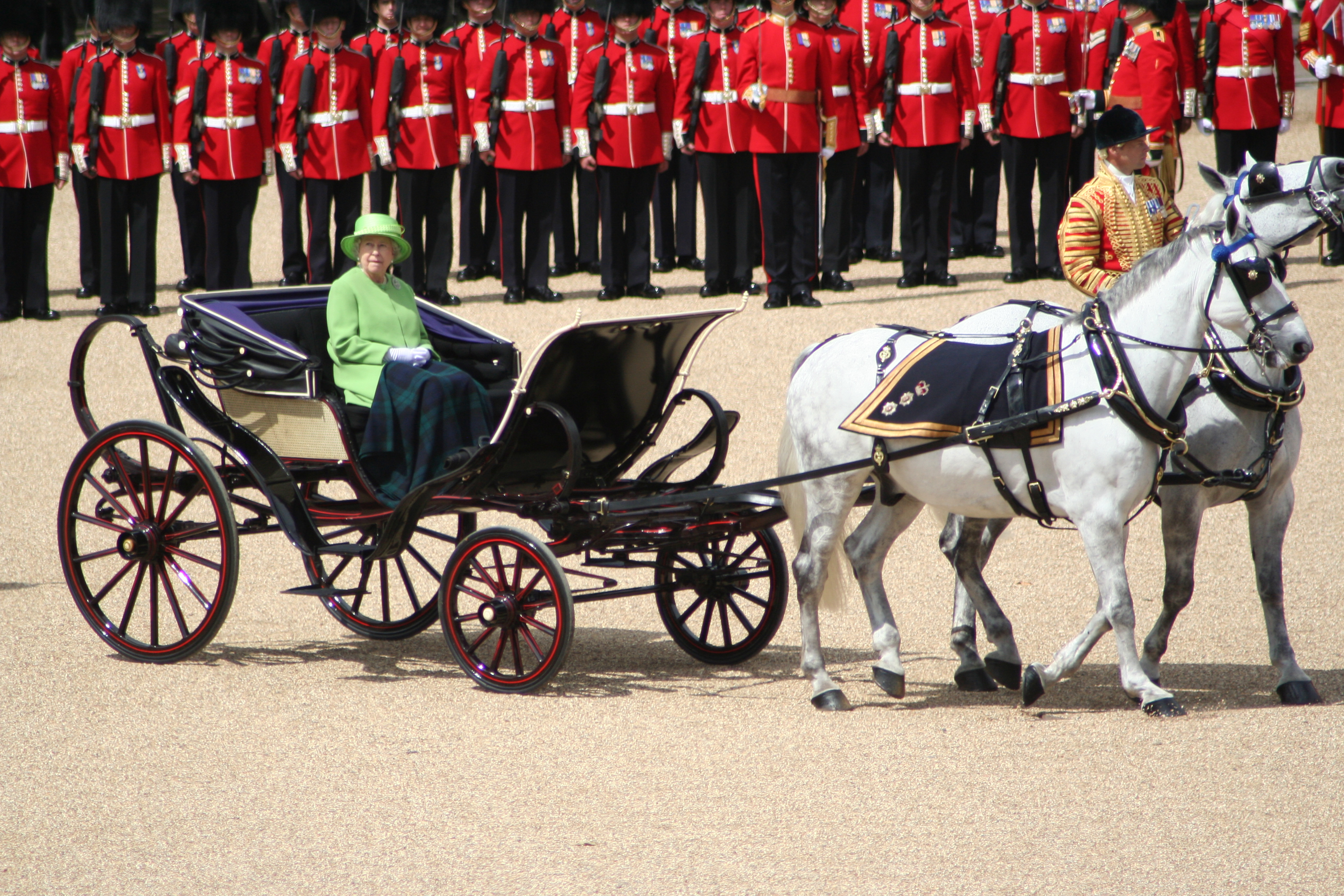 Queen's Official Birthday parade